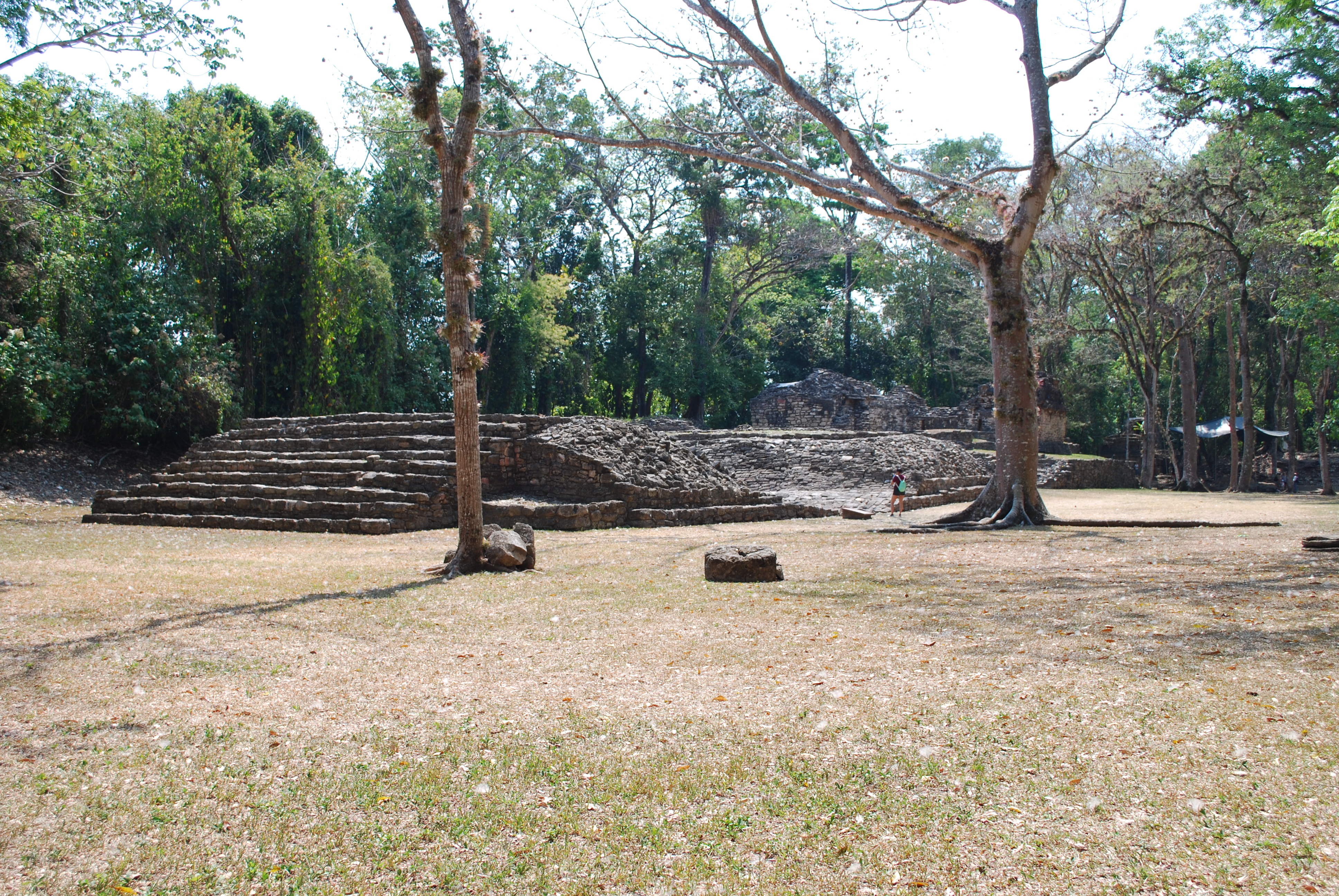 Mesoamerican ballcourt at Yaxchilan, Chiapas, Mexico